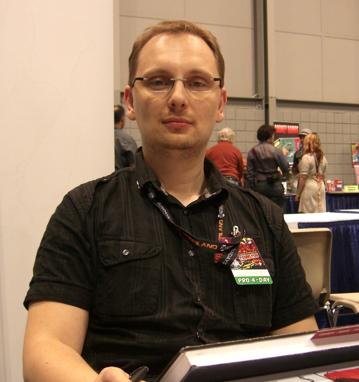 Comics creator Adi Granov at the 2011 New York Comic Con, Friday, October 14, 2011. This photo was created by Luigi Novi. It is not in the public domain, and use of this file outside of the licensing terms is a copyright violation.